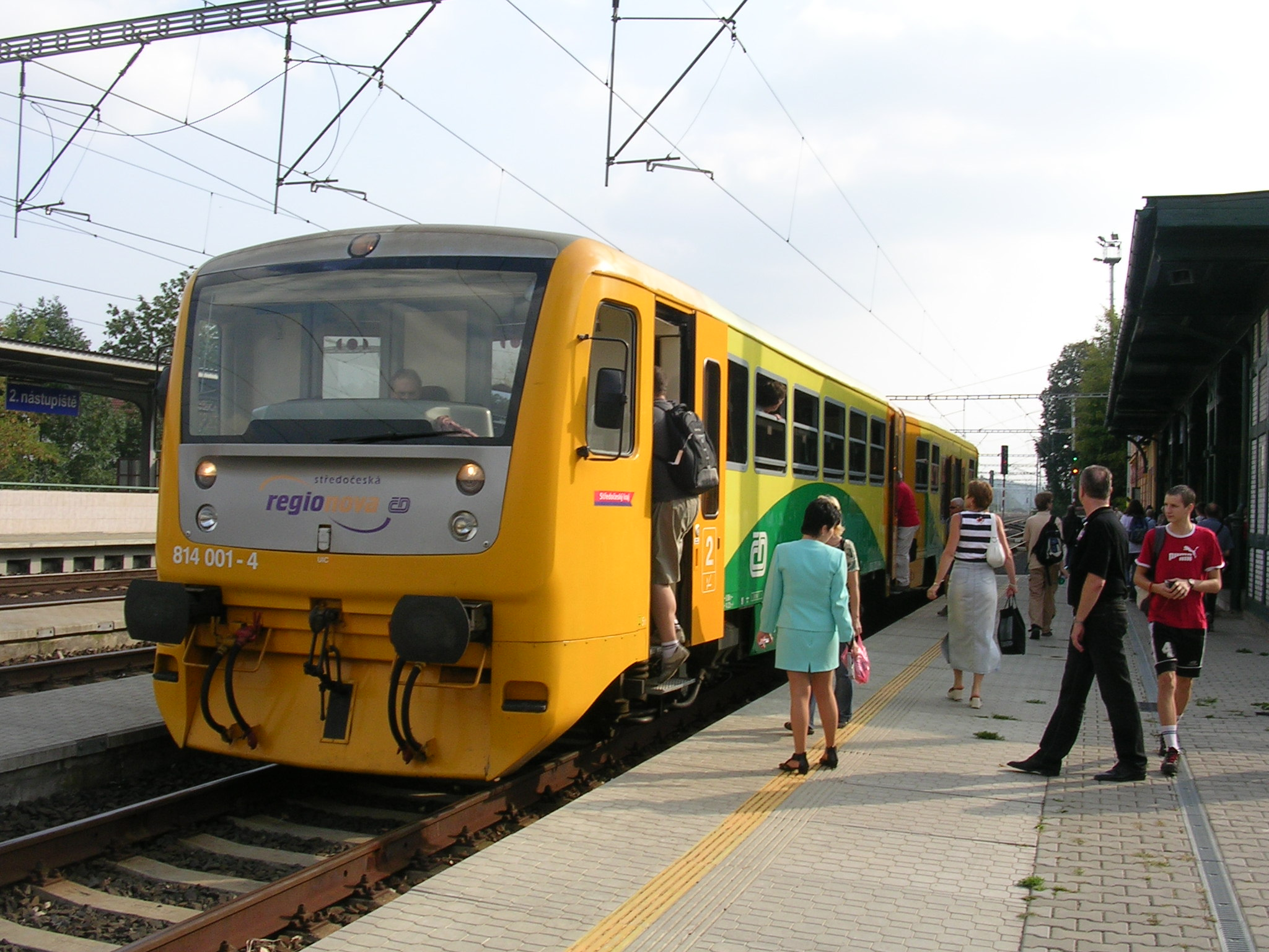 Roztoky, Central Bohemian Region, the Czech Republic.